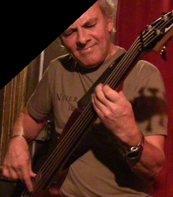 Percy Jones at Barbes